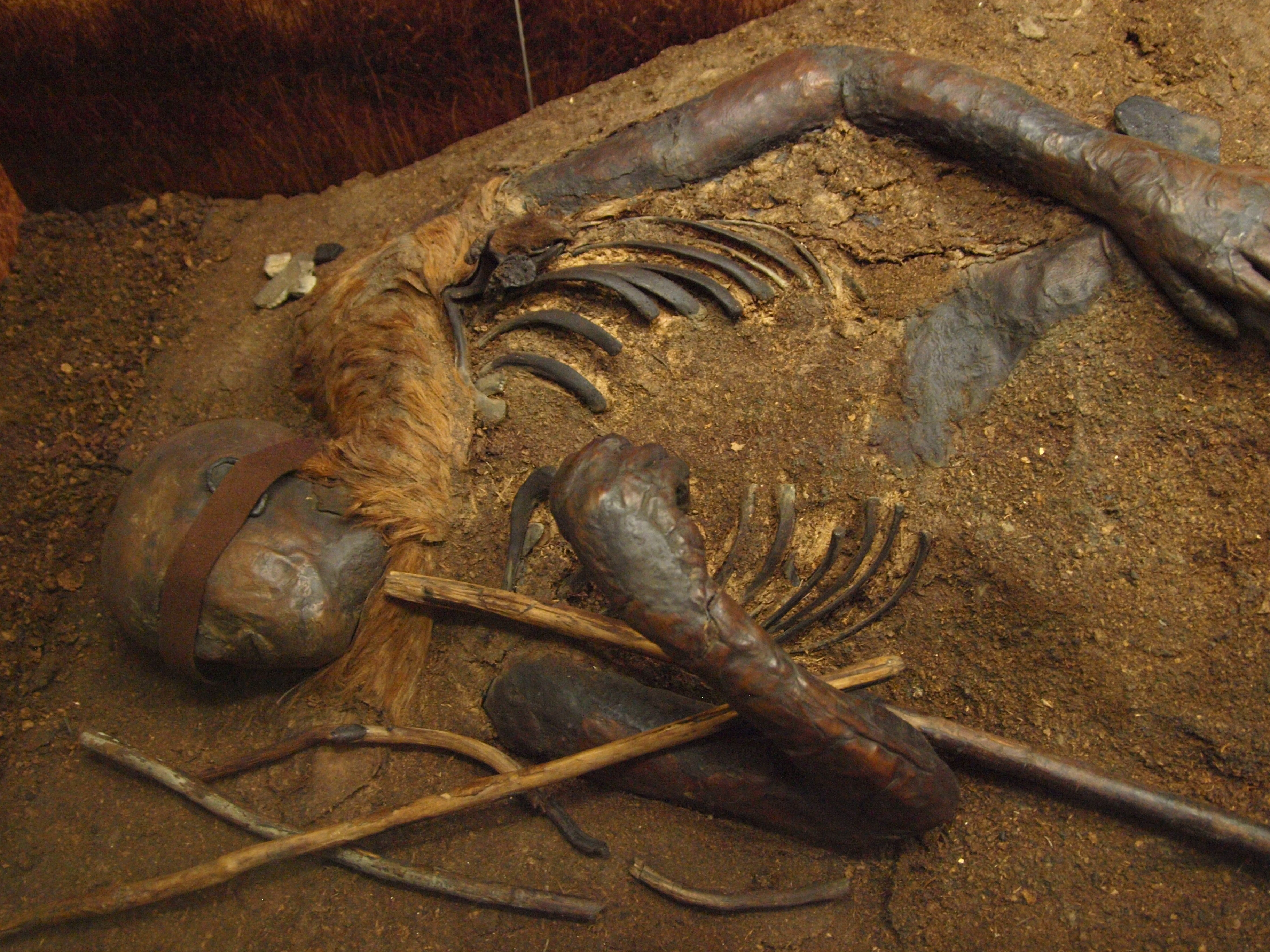 The upper part of bog body Windeby I a 16 year old boy on display at Archäologisches Landesmuseum Gottorf Castle, Schleswig Germany. Found in 1952 in the Domslandmoor near the village Windeby in Schleswig-Holstein, Germany. C14 dated beween 41 and 118 AD. The textile band around the head is a modern replacement for the sprang band presently not on display that time.